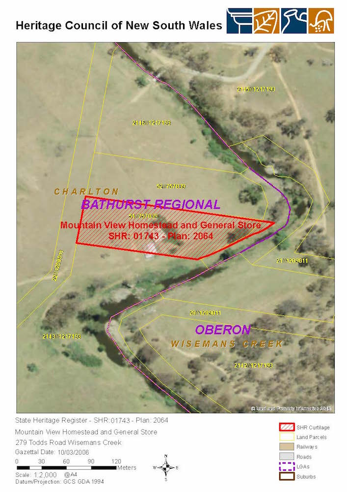 Mountain View Homestead and General Store: SHR Plan 2064